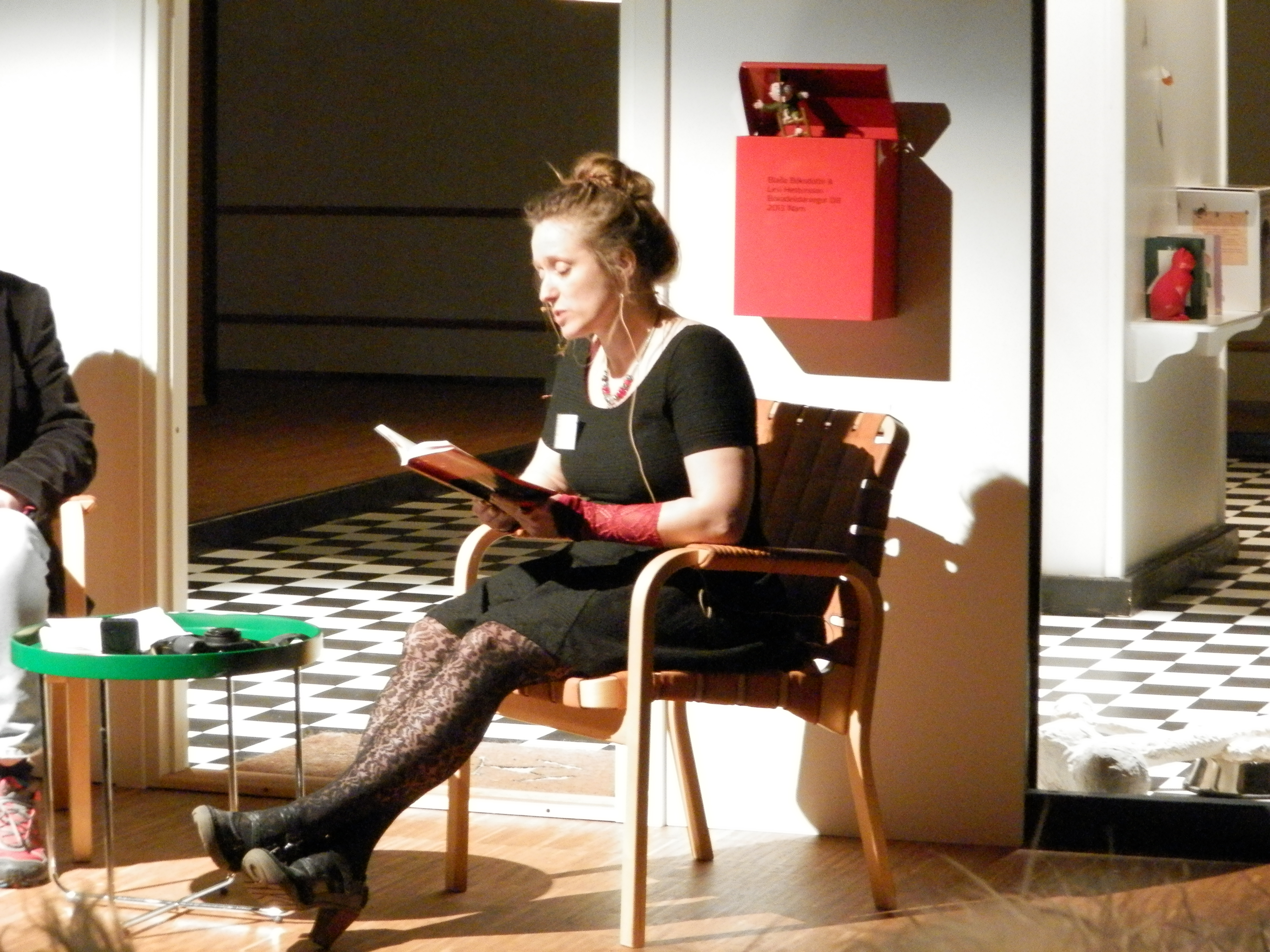 Rakel Helmsdal is a Faroese writer.